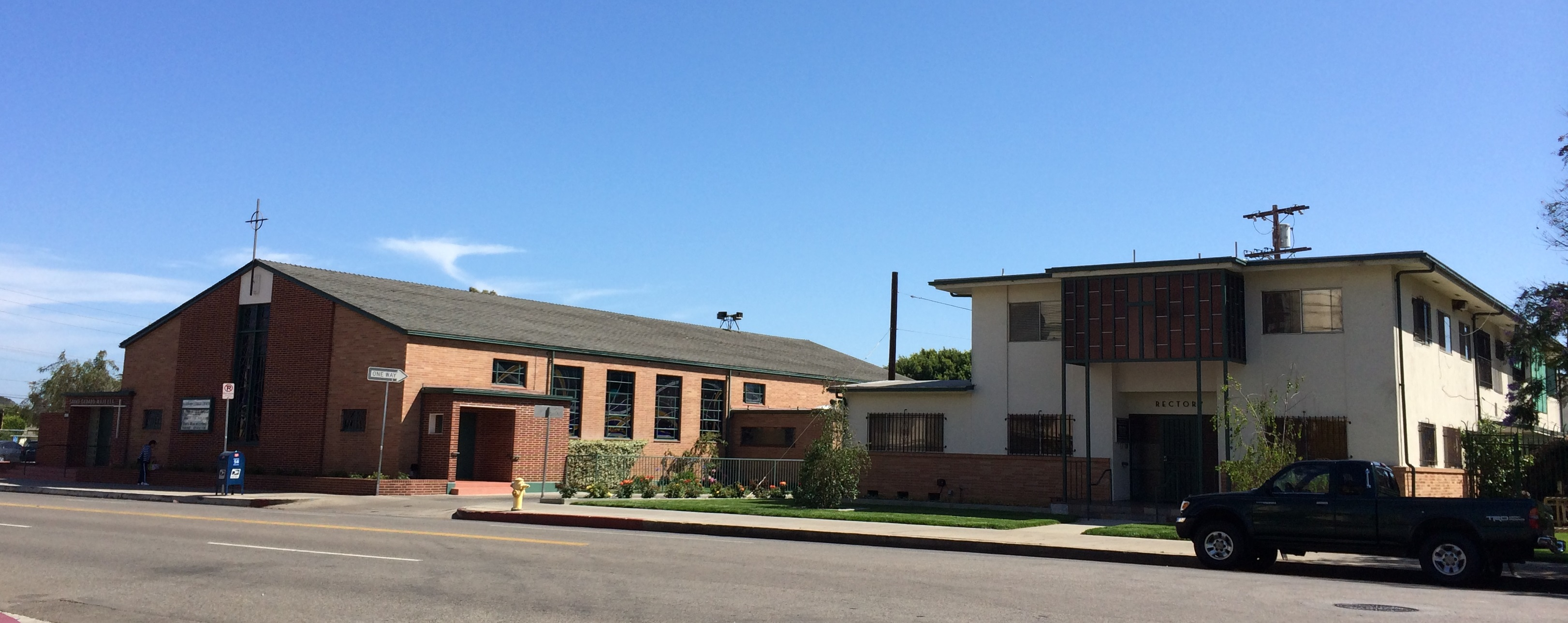 Gerard Majella Catholic Church in the Del Rey neighborhood of Los Angeles, United States. Location includes school and rectory buildings.